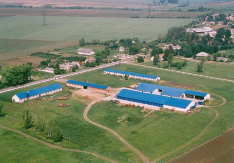 Dalmand, Hungary, aerial photography